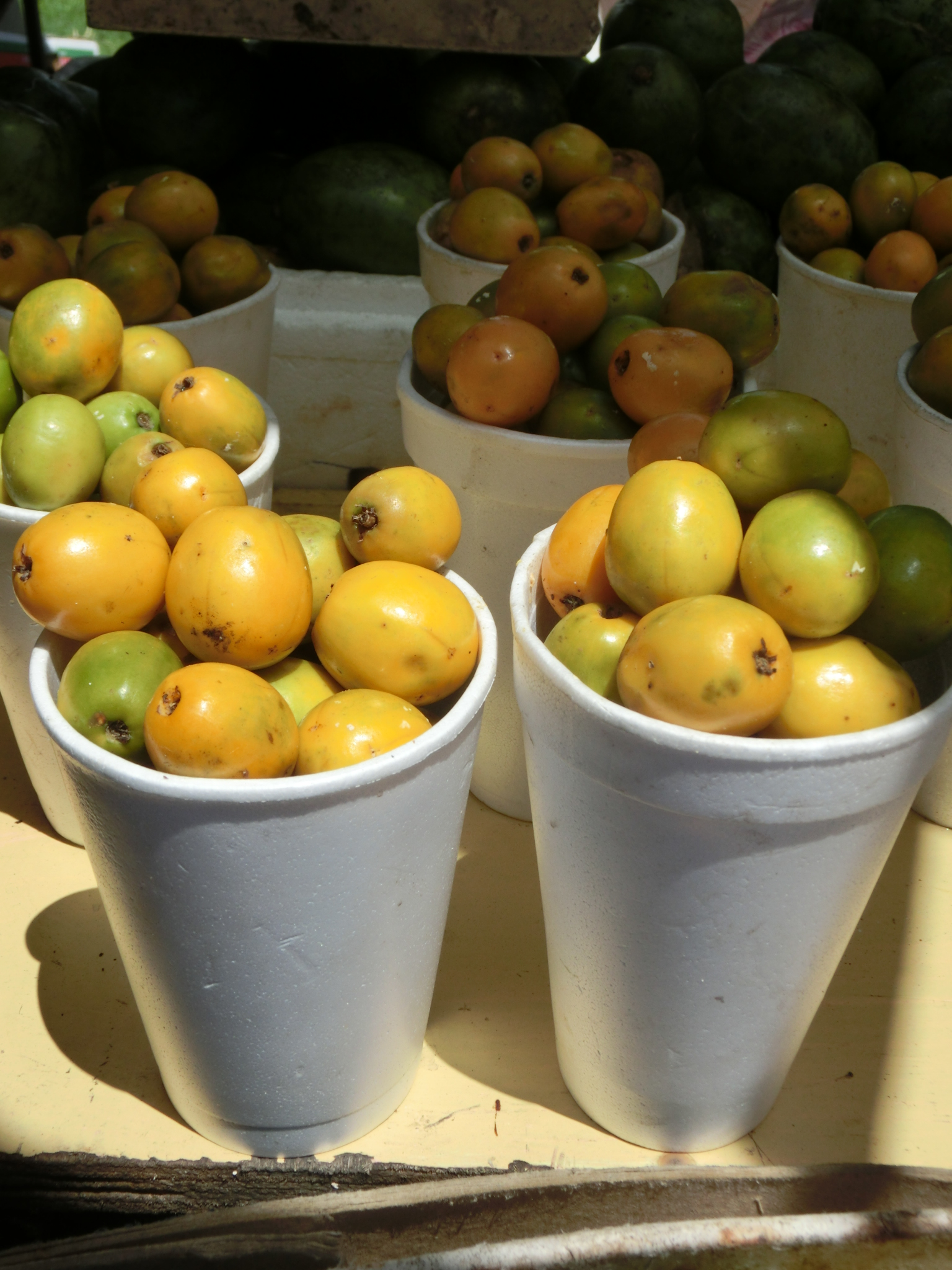 The edible fruit of Spondias mombin as sold on streets in Santo Domingo, Domincican Republic. The fruit is called Jobo here.